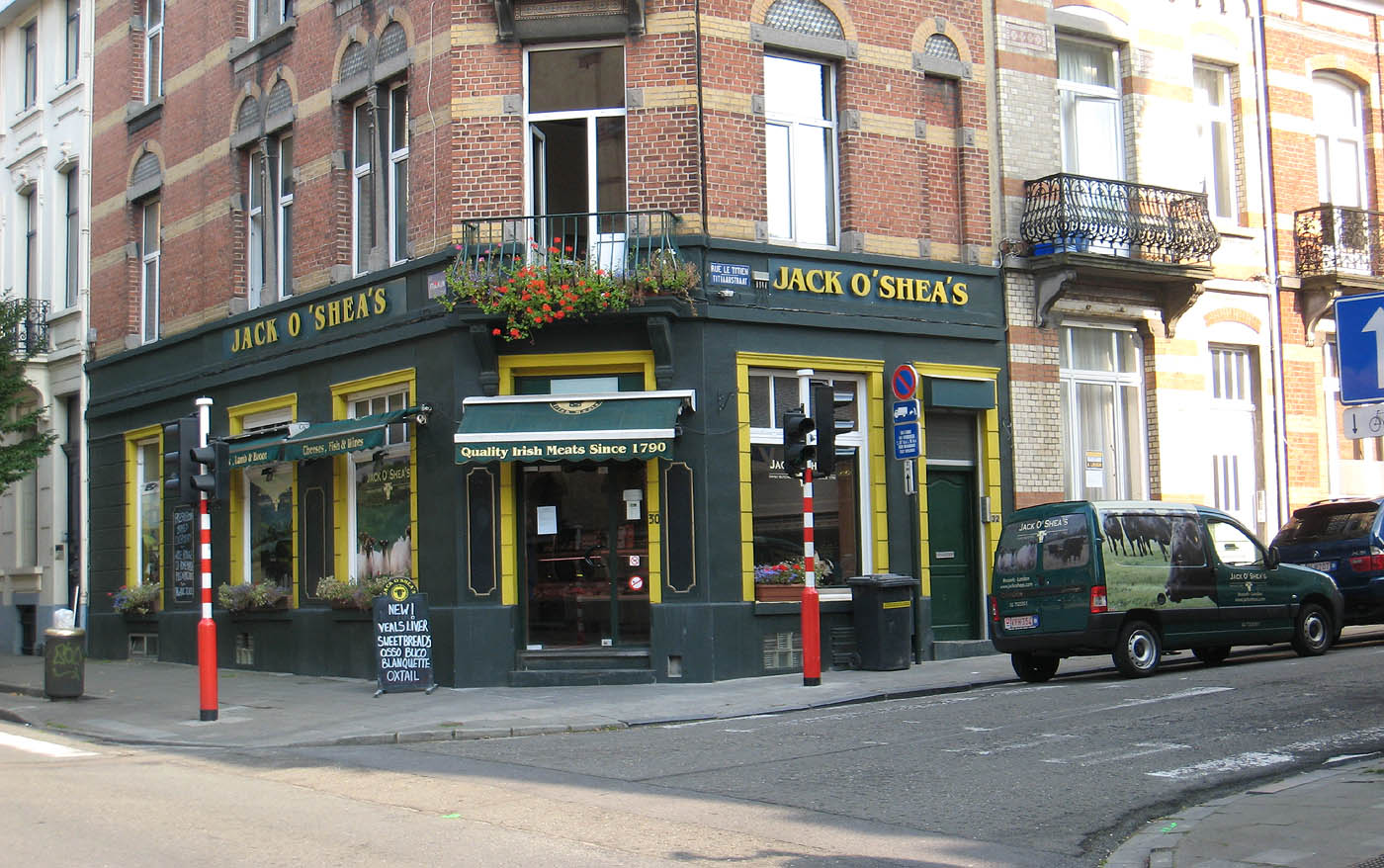 Jack O'Shea's butcher's, Brussels, with the shop van alongside.